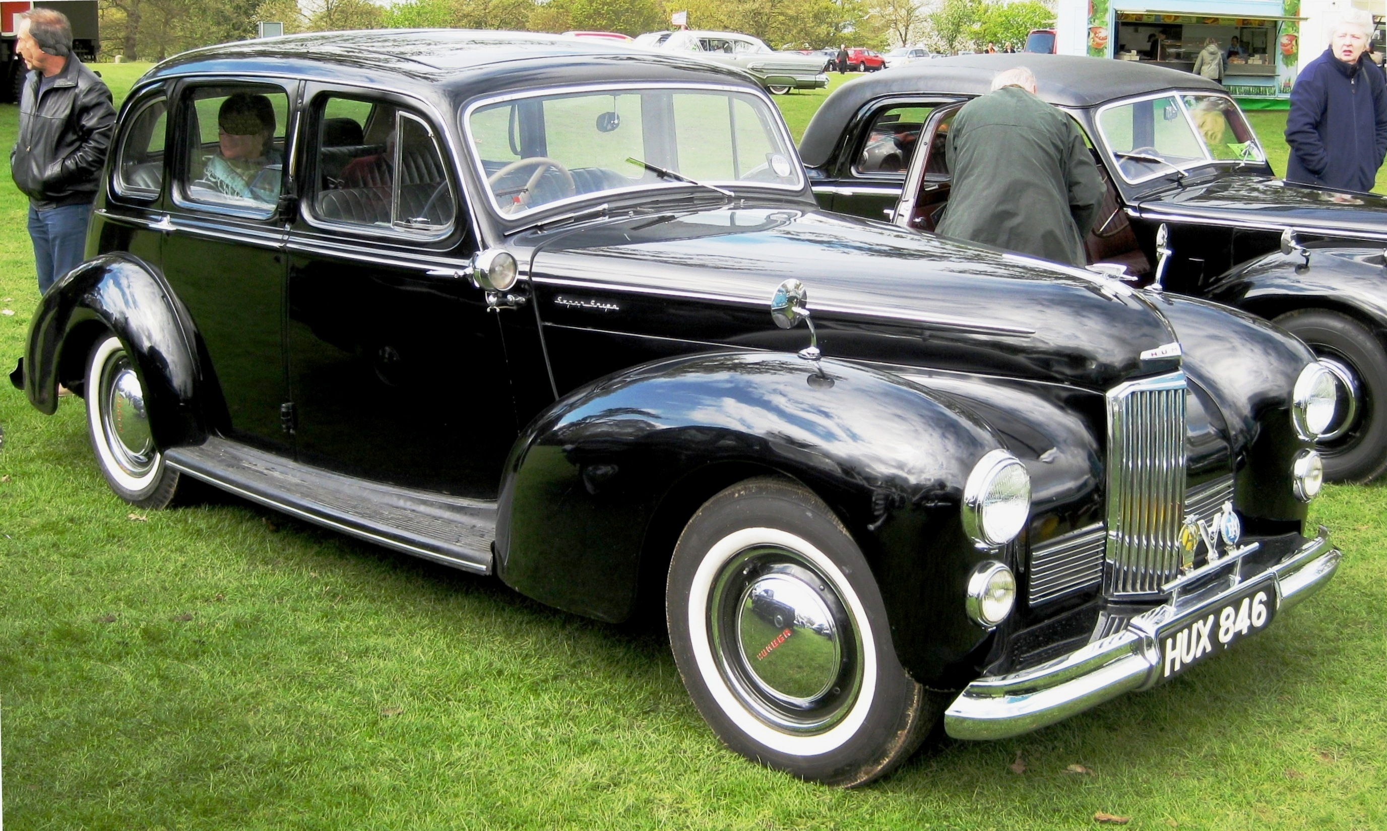 Humber Super Snipe Mark II (1949) at Oldtimer Fest at Woburn